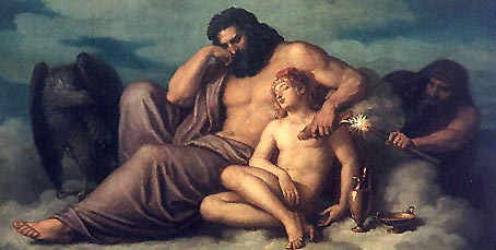 part of a cycle on the myth of Prometheus